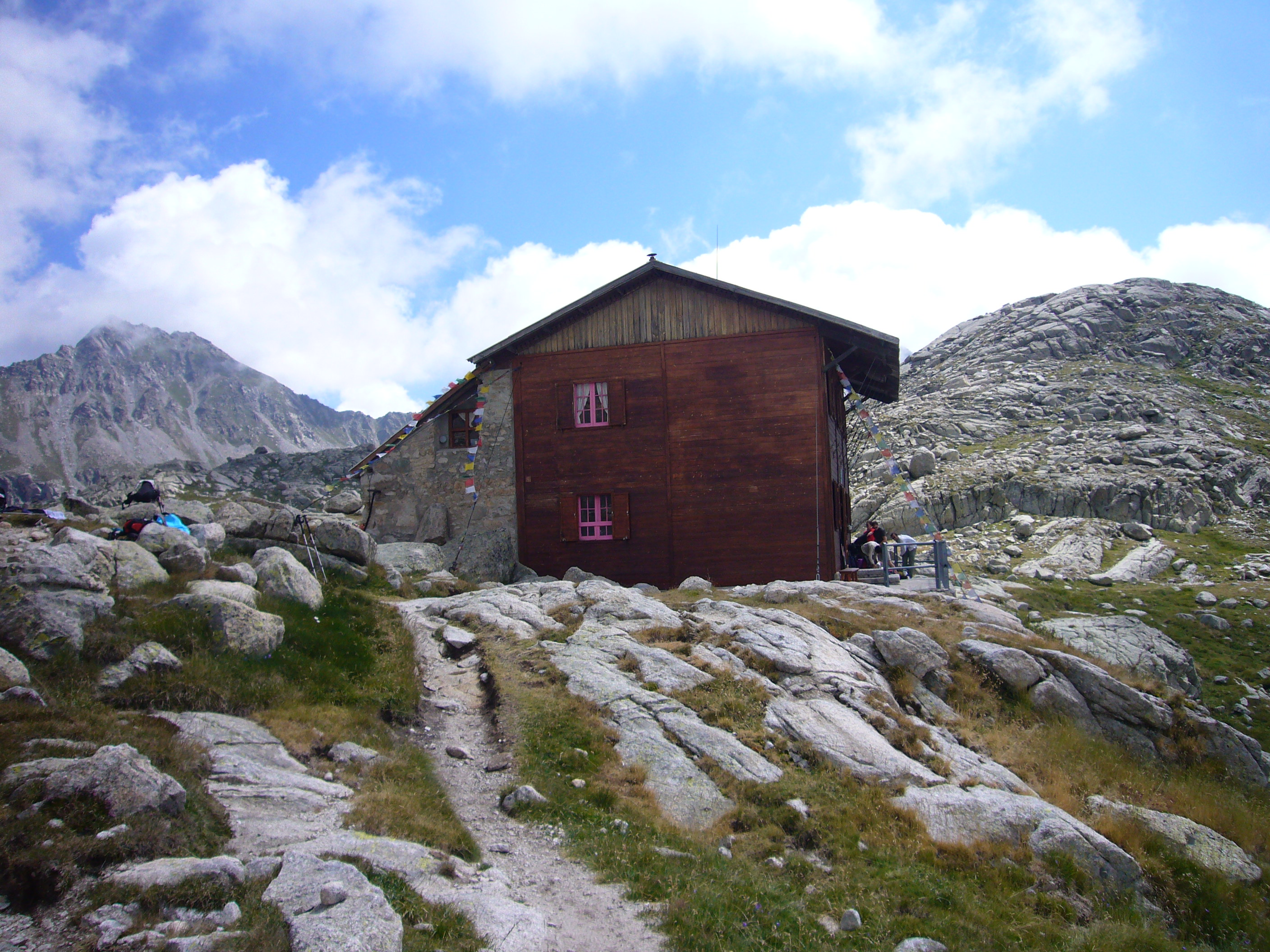 Refugi de Colomina, La Torre de Cabdella, Pallars Jussà, Catalonia